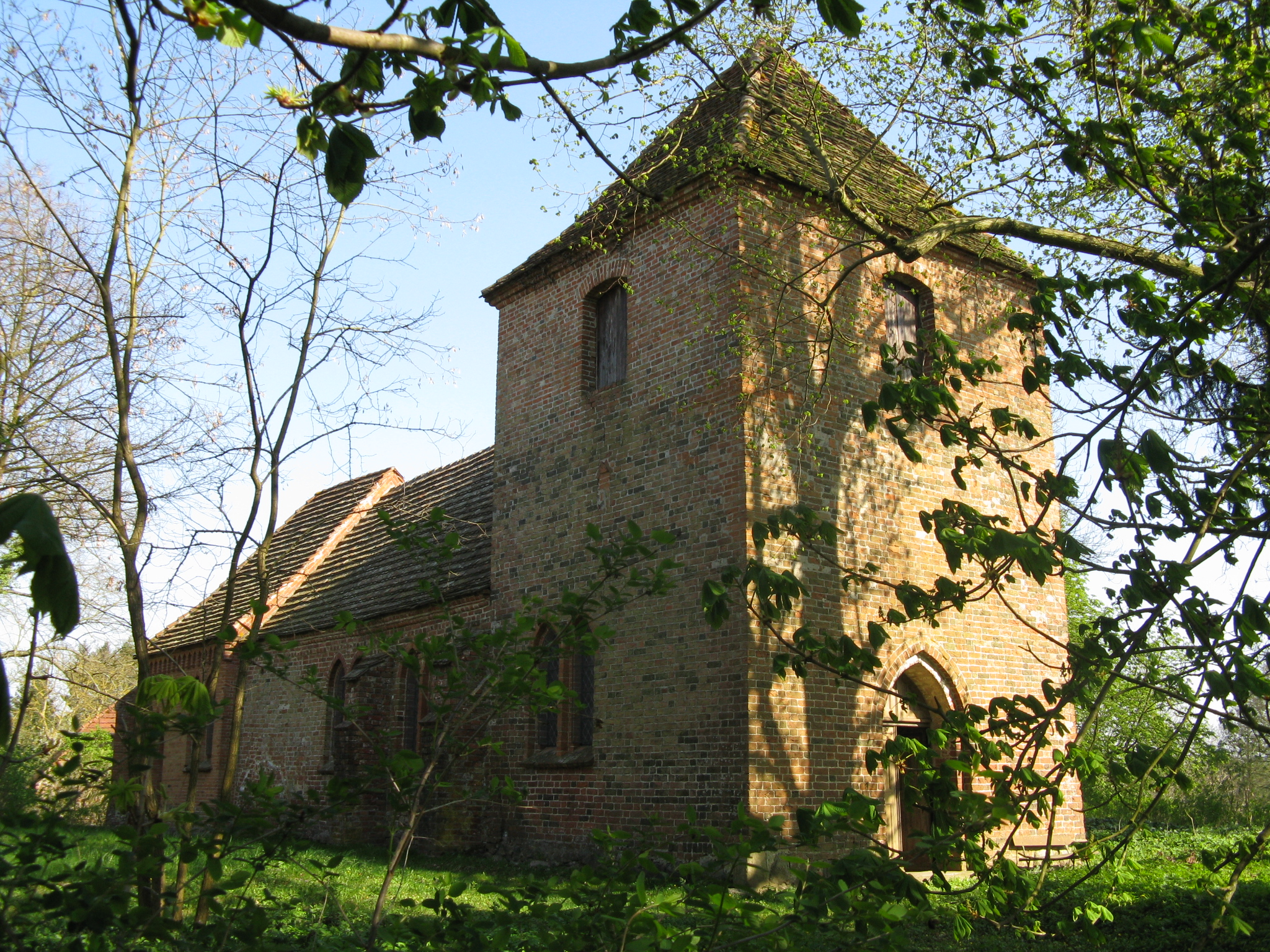 Church in Holzendorf, disctrict Parchim, Mecklenburg-Vorpommern, Germany